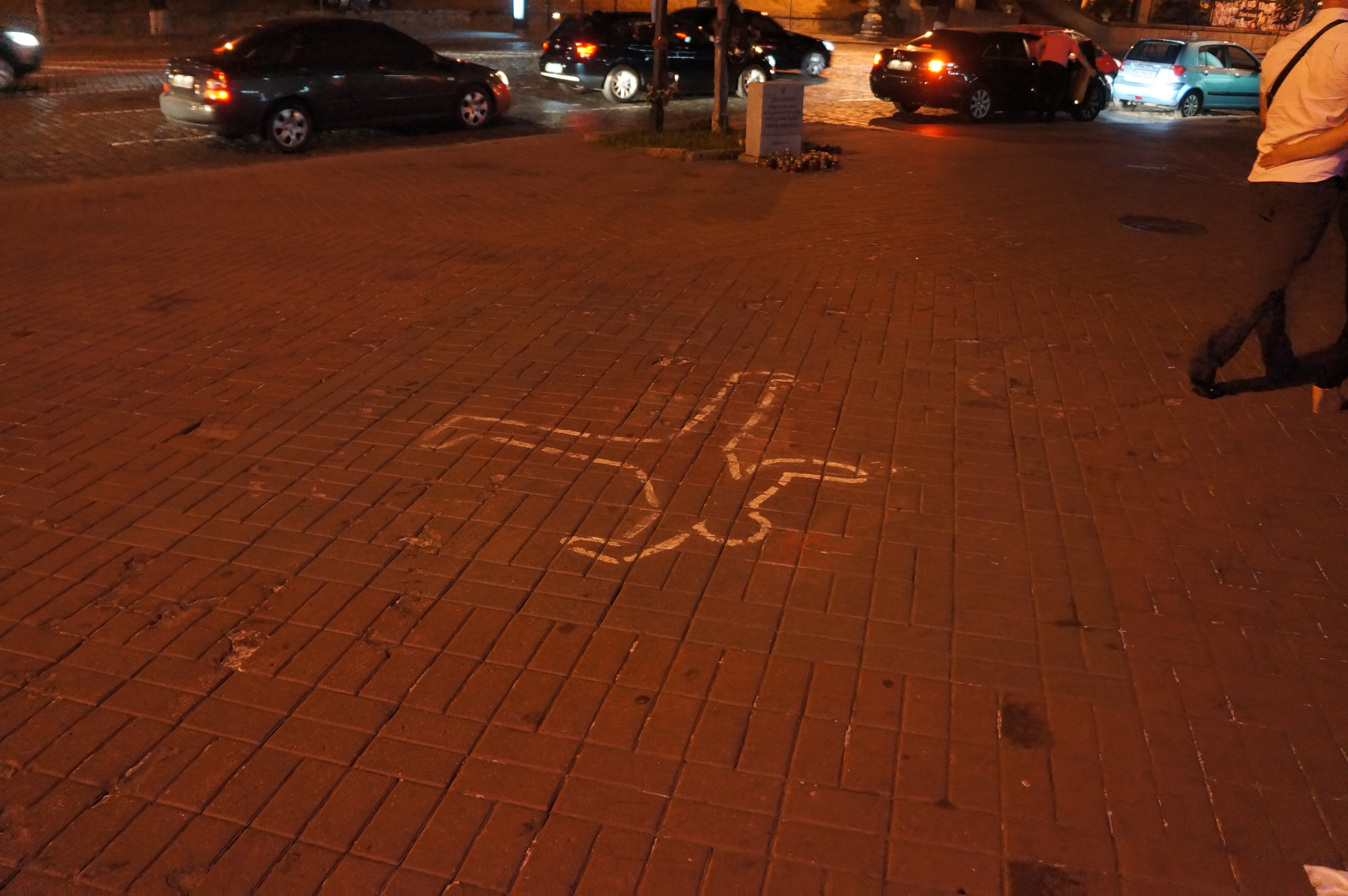 Silhouettes of victims painted on a sidewalk a year after the riots.